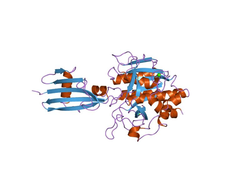 Cartoon representation of the molecular structure of protein registered with 5sic code.